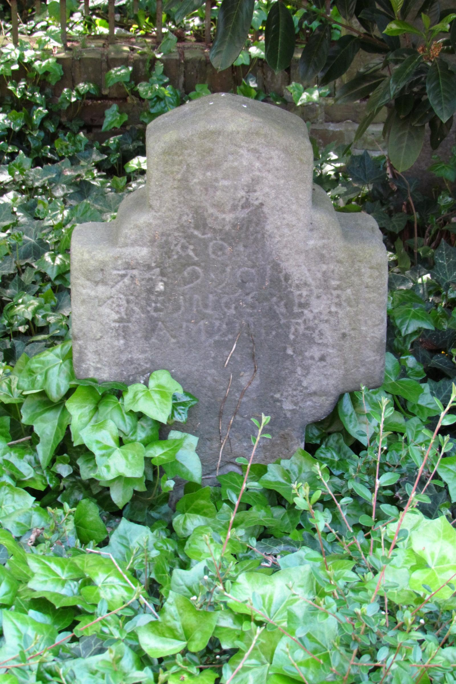 This is a photograph of an architectural monument.It is on the list of cultural monuments of Korschenbroich